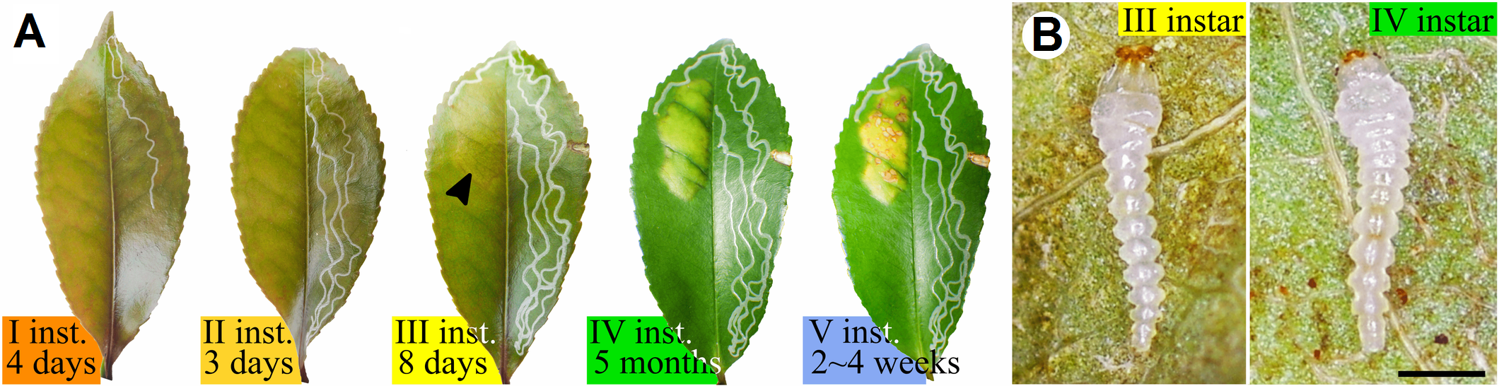 (A) The leaf-mines made by the five larval instars of B. euryae on Eurya japonica. First and second instars, respectively in dark and light orange and lasted 4 and 3 days, make a serpentine mine in the adaxial epidermis. The third instar (yellow) burrow a blotch mine (black arrow), visible by a brightening of leaf color and lasted 8 days. The fourth instar (green) is associated with an inflation and a progressive yellowing of the blotch mine. It lasted about five months in our rearing. The last stage (blue) lasted from 2 to 4 weeks and was linked with the appearance of brown patches on the mine. (B) The morphology of third and fourth instar larvae. The mandibula shape, visible as the red structure on larva head, designate by its elongation a fluid-feeding habit for the third instar whereas its compactness for the fourth instar correspond to a tissue-feeder mode. Scale: 500μm.